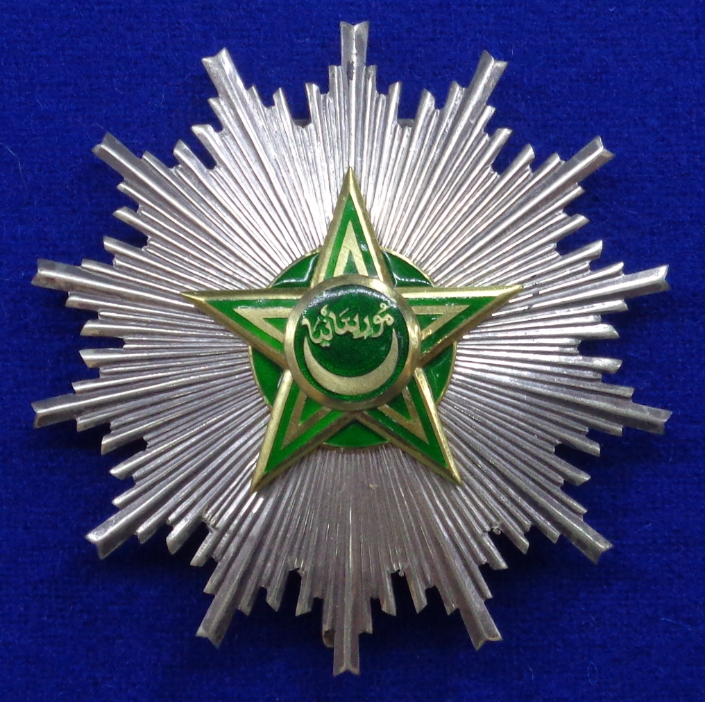 National Order of Merit, star of Grand Officer. Mauritania. The exhibition of the Tallinn Museum of Orders of Knighthood, Estonia.